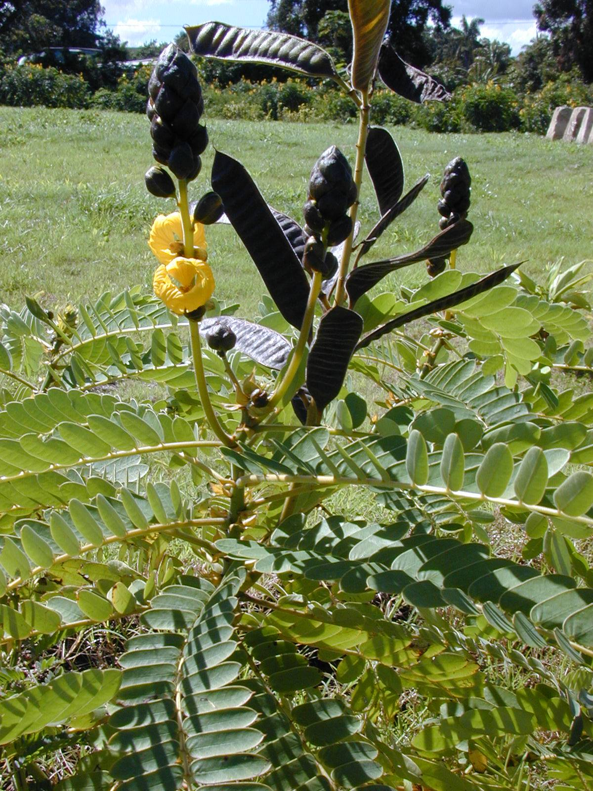 Senna didymobotrya (habit). Location: Maui, Haiku